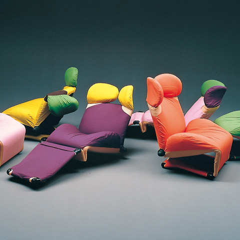 Works of KITA Toshiyuki 002